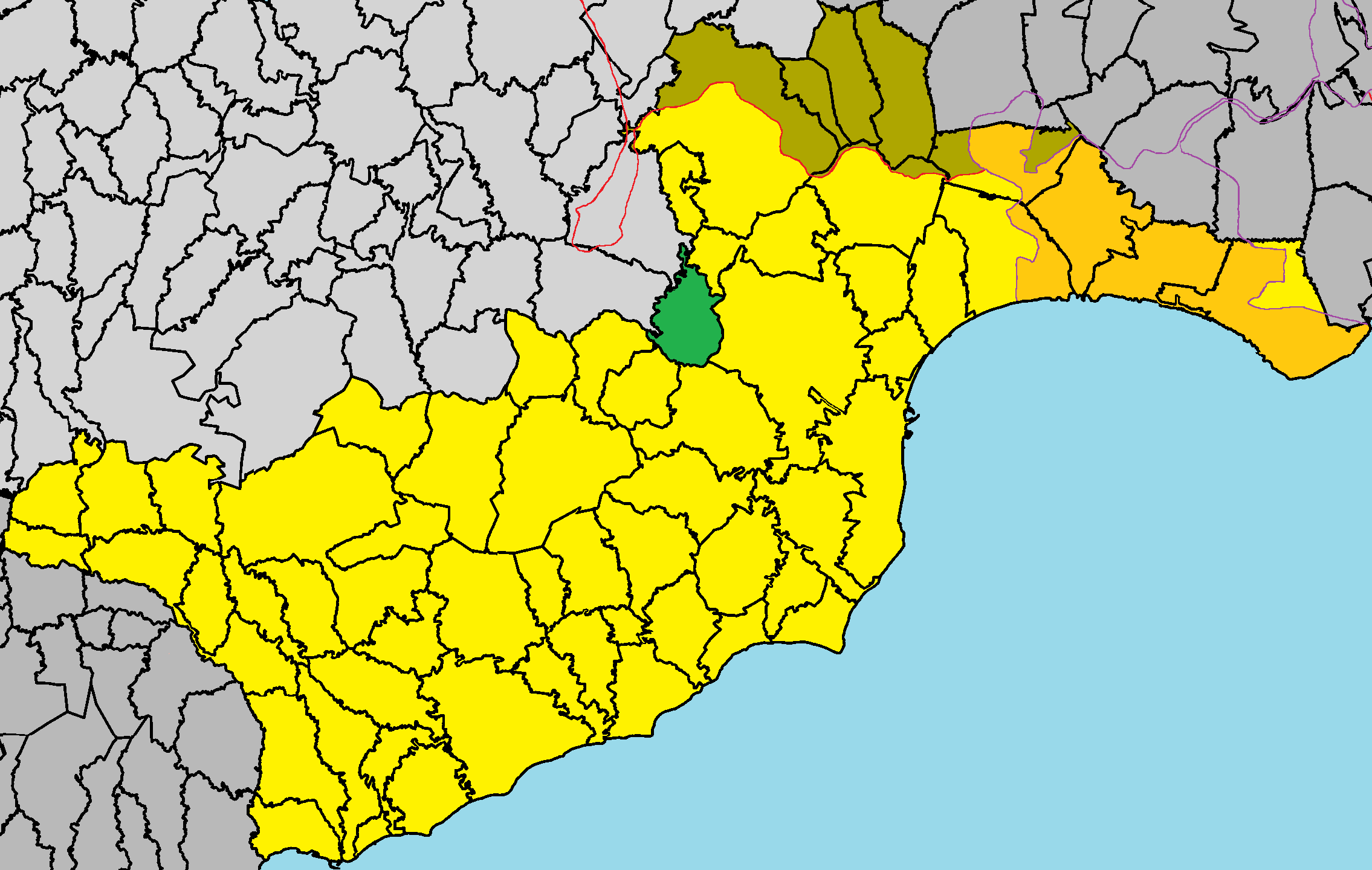 Goşşi in Larnaca District.